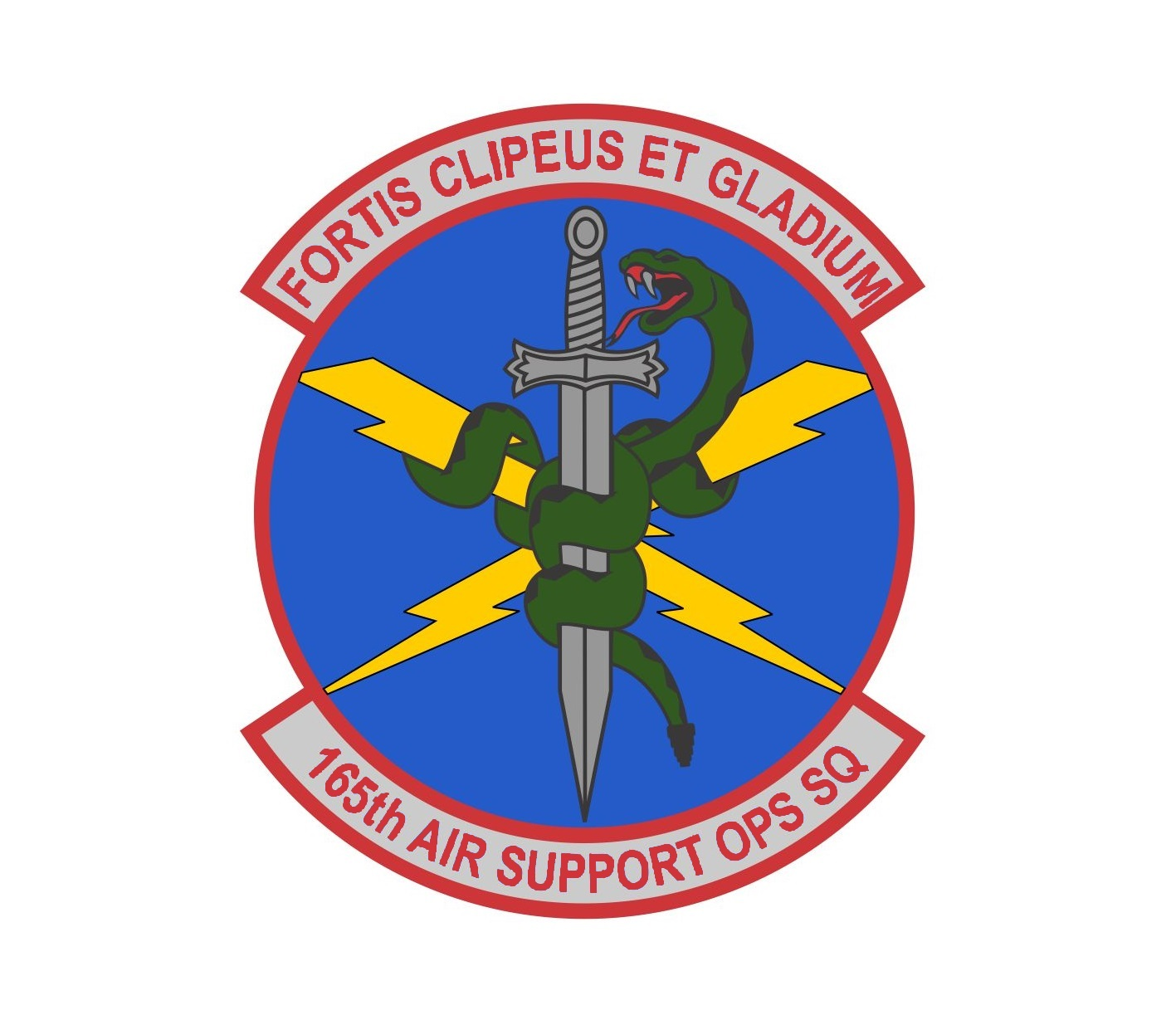 CP_afa